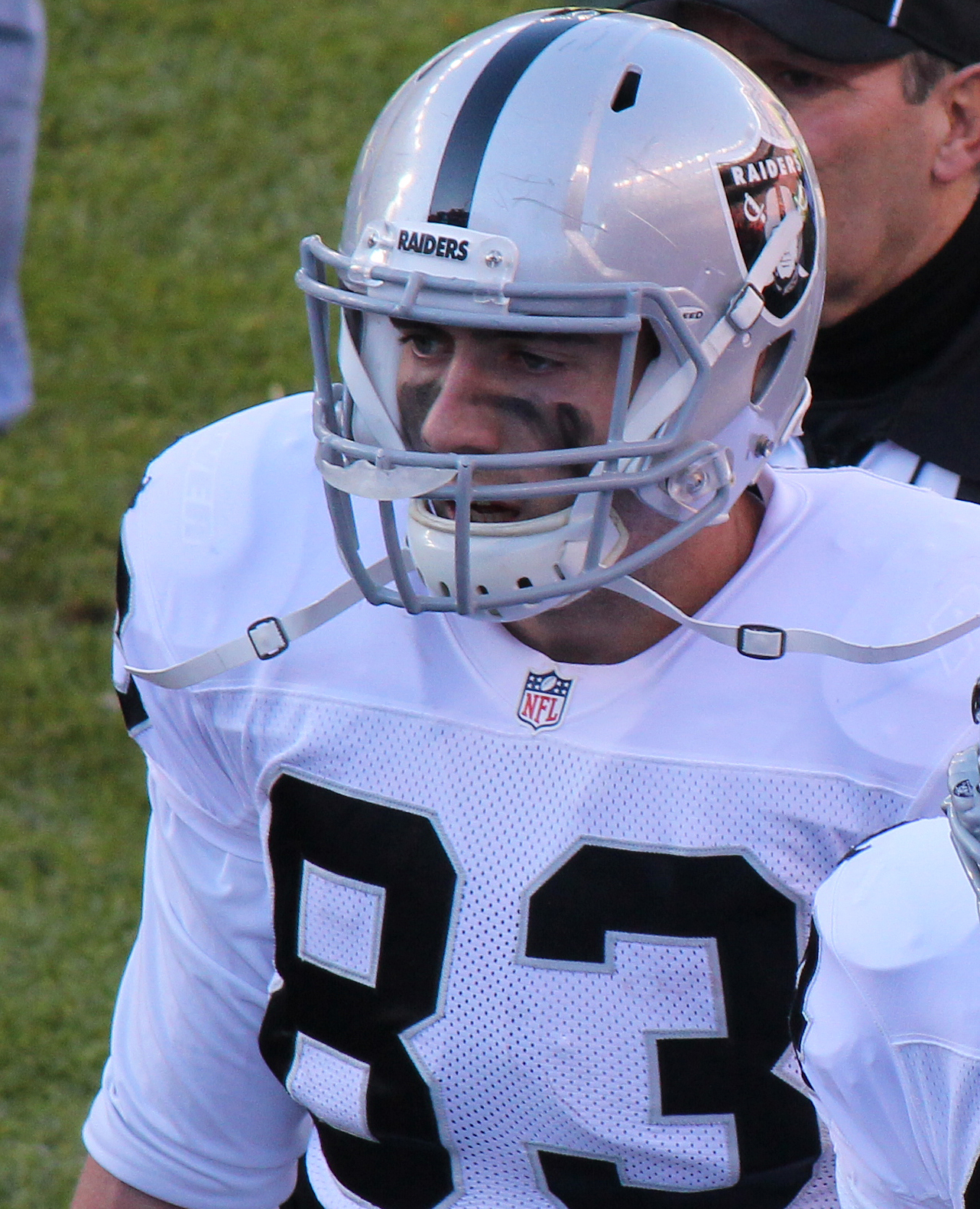 Scott Simonson, a player on the National Football League.